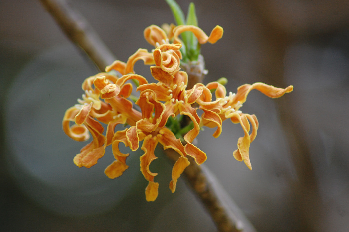 Flower of Strophanthus boivinii from Apocynaceae. This is the only specimen of this species found in the city, and most likely the entire State of Maharashtra (if not the whole country!).